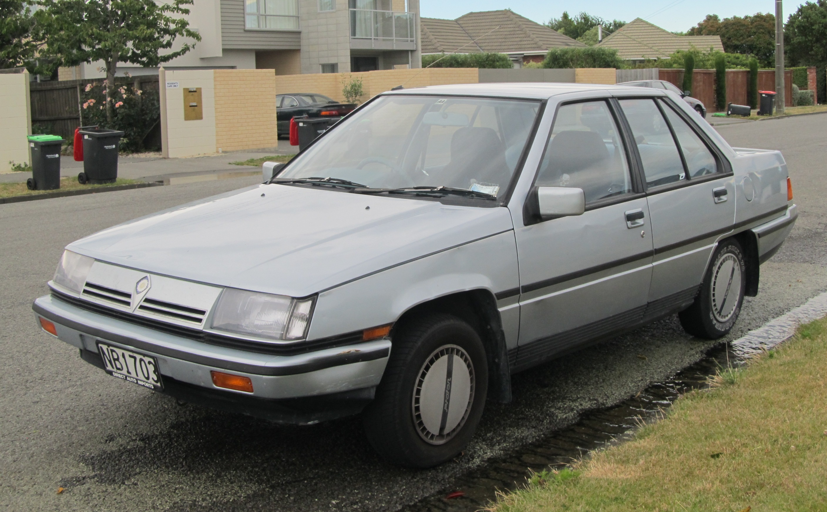 NB1703 These aren't too common anymore - I used to see them all the time, but I guess they're not worth much. This one is probably student-owned, and looked in pretty good nick.